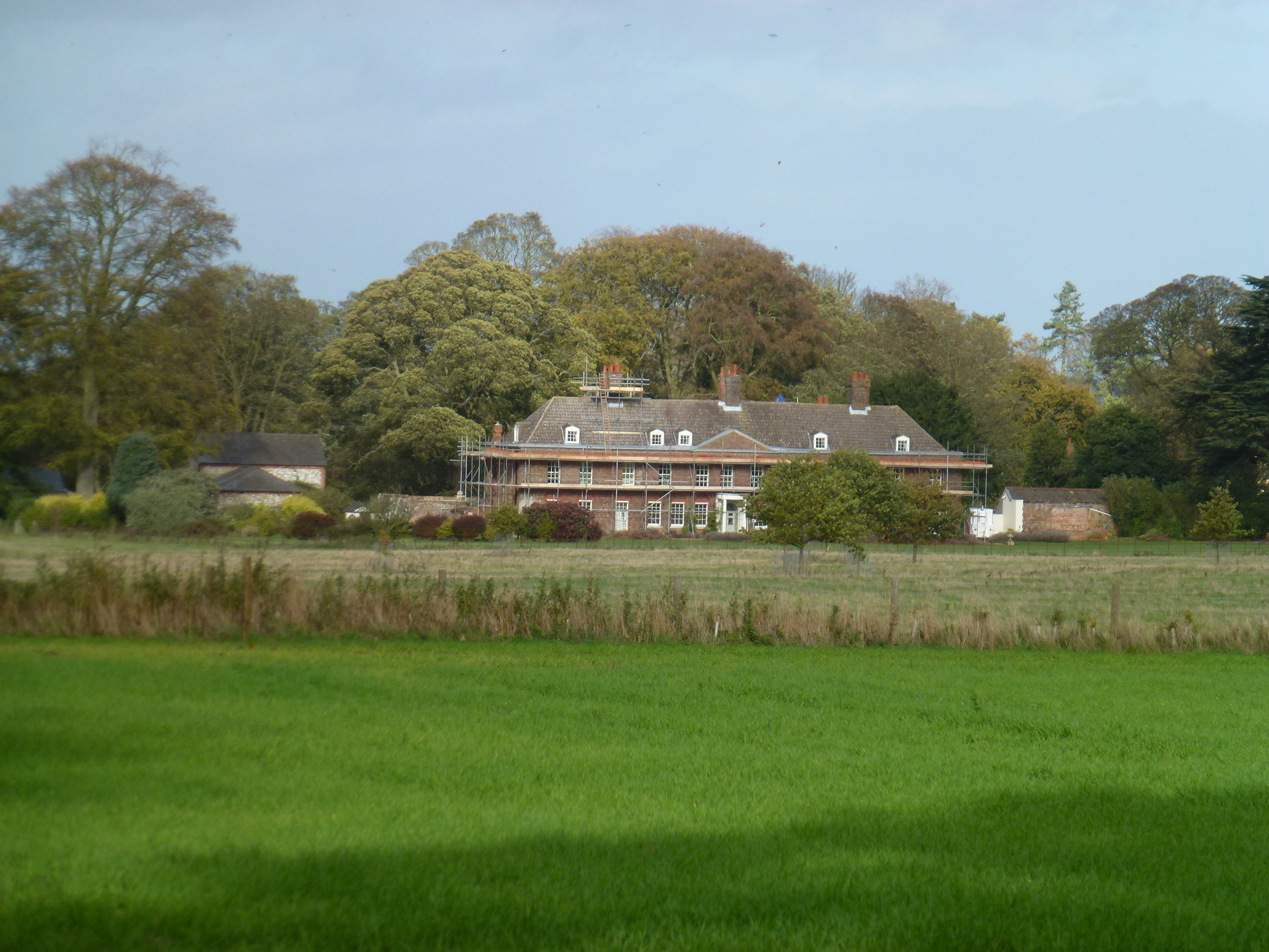 Farmland near Anmer Hall in Norfolk